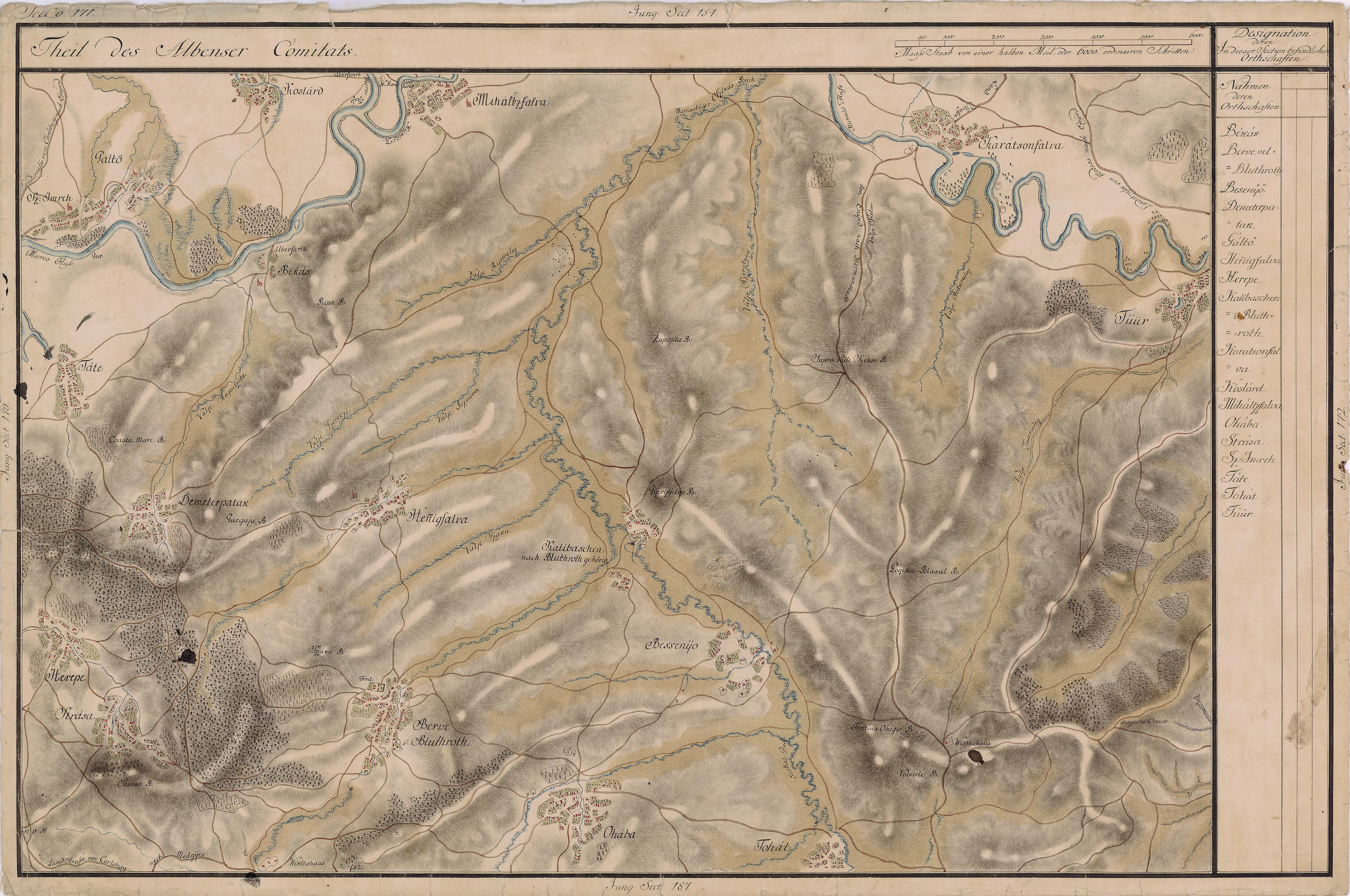 Grand Duchy of Transylvania, 1769-1773. Josephinische Landaufnahme pg.171